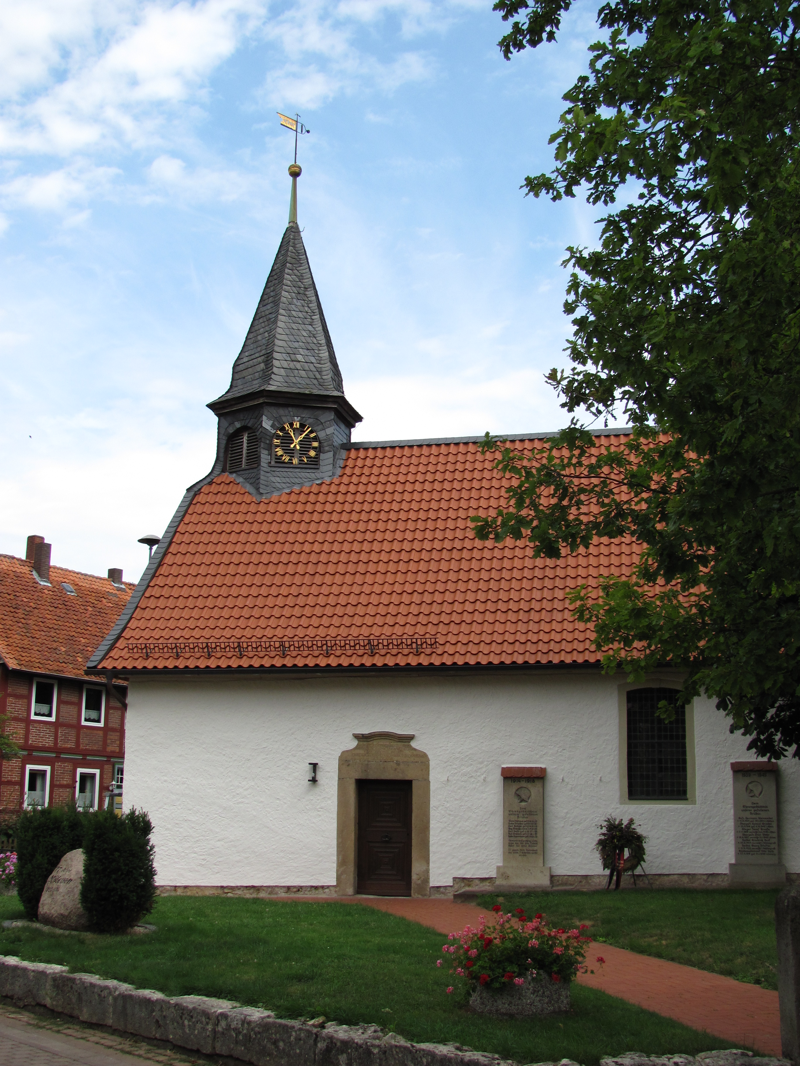 Protestant Church in Moellensen, Sibbesse, Germany